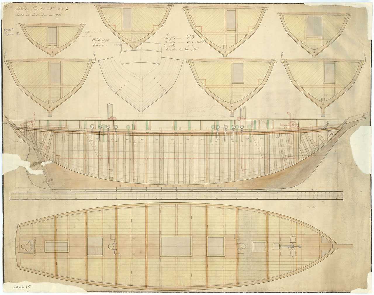 This file is from the National Maritime Museum, Greenwich, London's collection of plans of vessels. The NMM has made the image available under the the Creative Commons Attribution-Non-Commercial-ShareAlike (CC BY-NC-SA) licence. The original file resides at